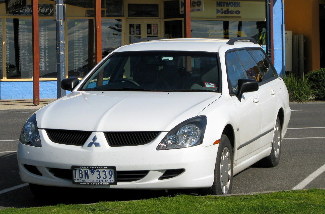 2003 Mitsubishi Magna (TL) ES station wagon. Photographed in Apollo Bay, Victoria, Australia. Vehicle registration enquiry resultsJurisdictionVictoriaRegistrationTBN339Chassis code6MMTL8D463T003803Engine code6G74M309440Compliance date2003-07Year of manufacture2003